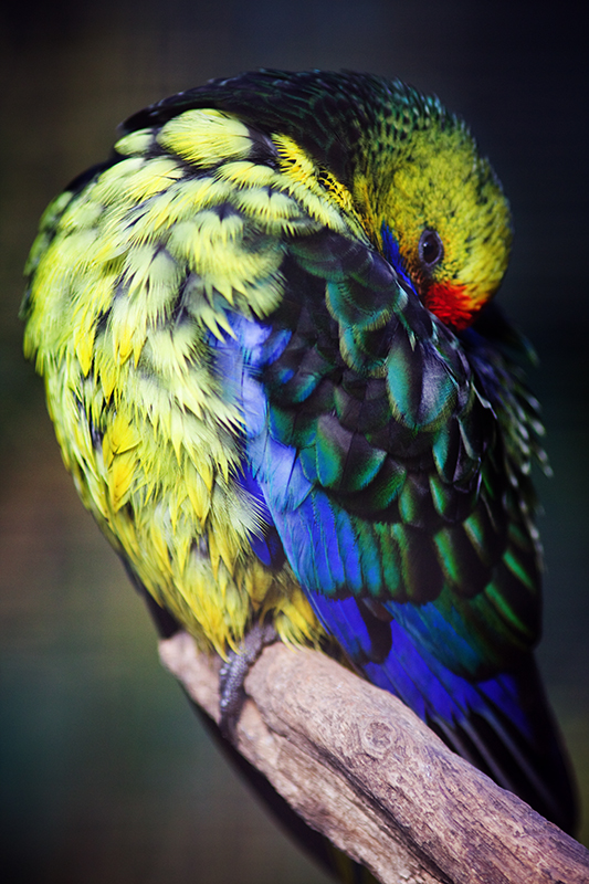 Green Rosella or Tasmanian Rosella (Platycercus caledonicus) in Tasmania, Australia.